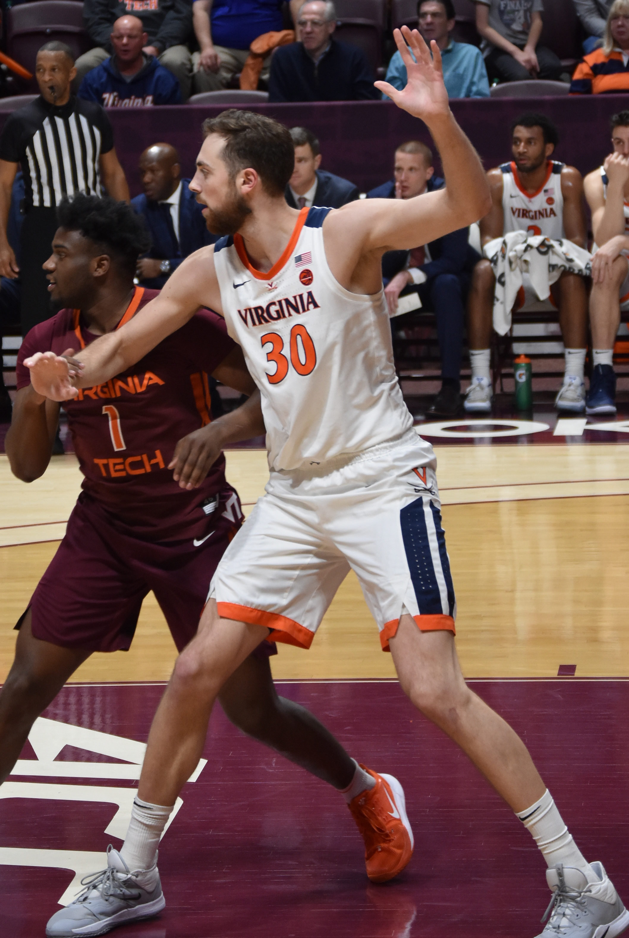 Jay Huff and Isaiah Wilkins battle in the Paint at Cassell Coliseum